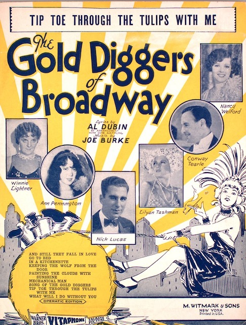 Original Cover for the song "Tip Toe Through The Tulips With Me" from the film The Gold Diggers of Broadway.